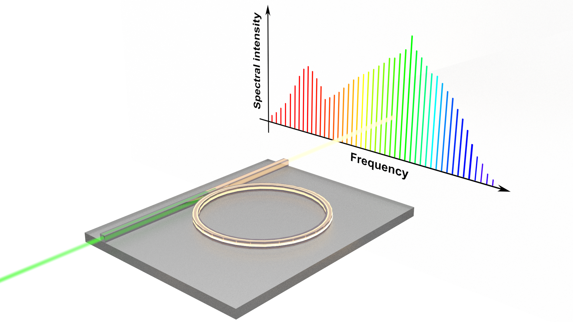 Created by Dodd-Walls Centre Principal Investigator Miro Erkintalo. Schematic depiction of the generation of an optical frequency comb in a ring resonator